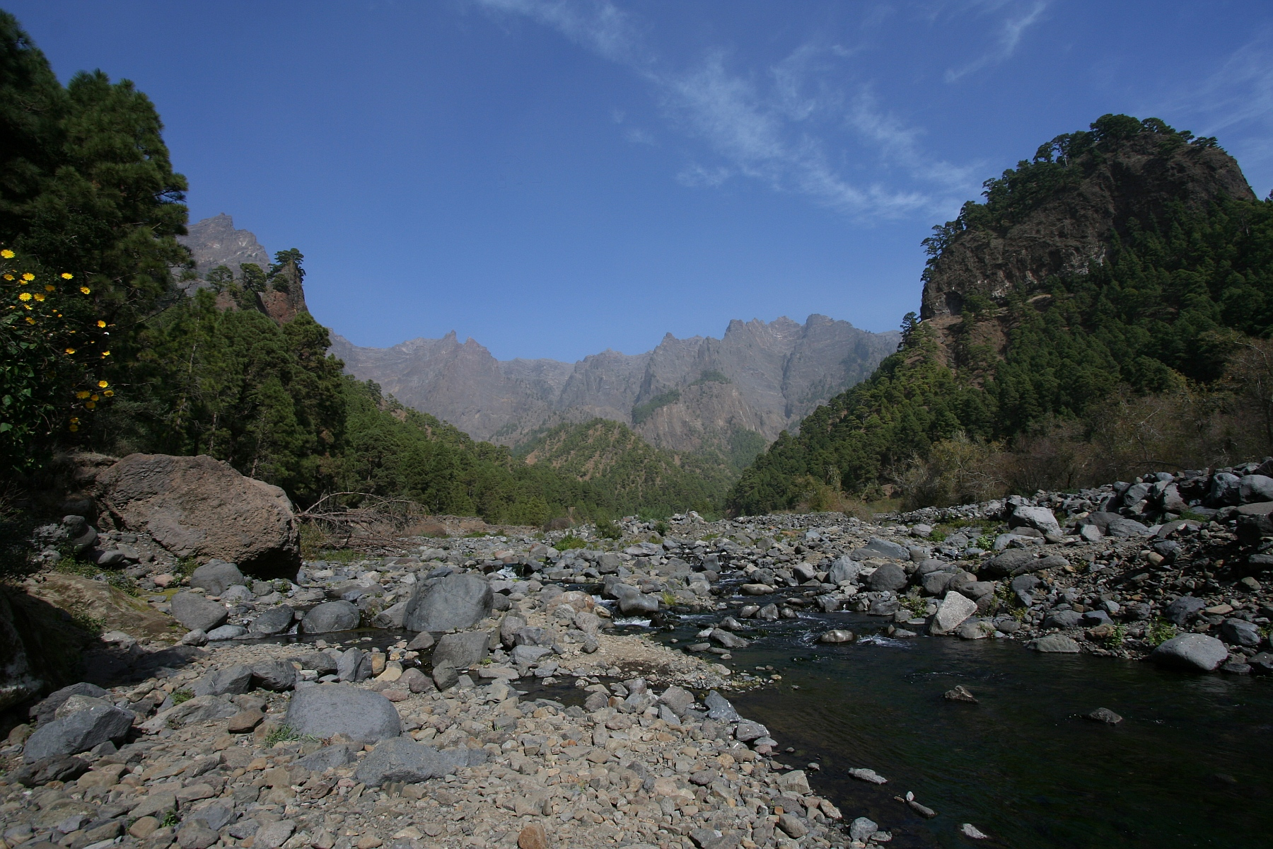 At Rio Taburiente in the Caldera de Taburiente (La Palma)